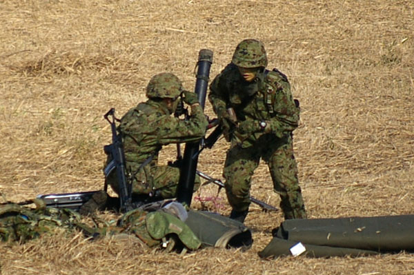 JGSDF 81mm Mortar L16.Taken by Los688,in Narashino,Japan,at 07-Jan-2007,JGSDF 1st Airborne Brigade 2007 first drop manuver.PD-self 中央の黒い筒が陸上自衛隊81mm 迫撃砲 L16。2007年01月07日、習志野演習場で撮影。